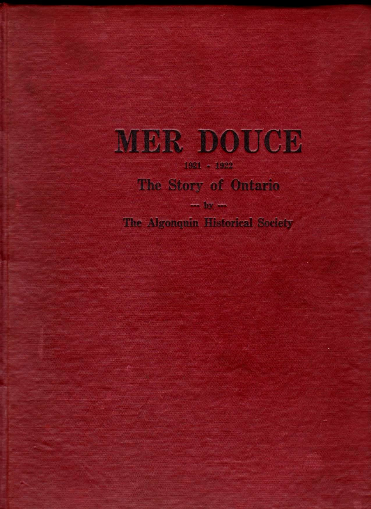 A scanned copy of the Hugh Cowan's Mer Douce.